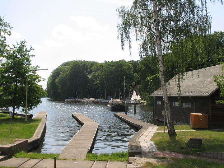 Dahme-Lock Neue Mühle in the village Neue Mühle, part of the town Königs Wusterhausen in the district Dahme-Spreewald, state Brandenburg, Germany.